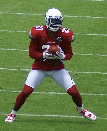 Patrick Peterson, Arizona Cardinals, in 2012.